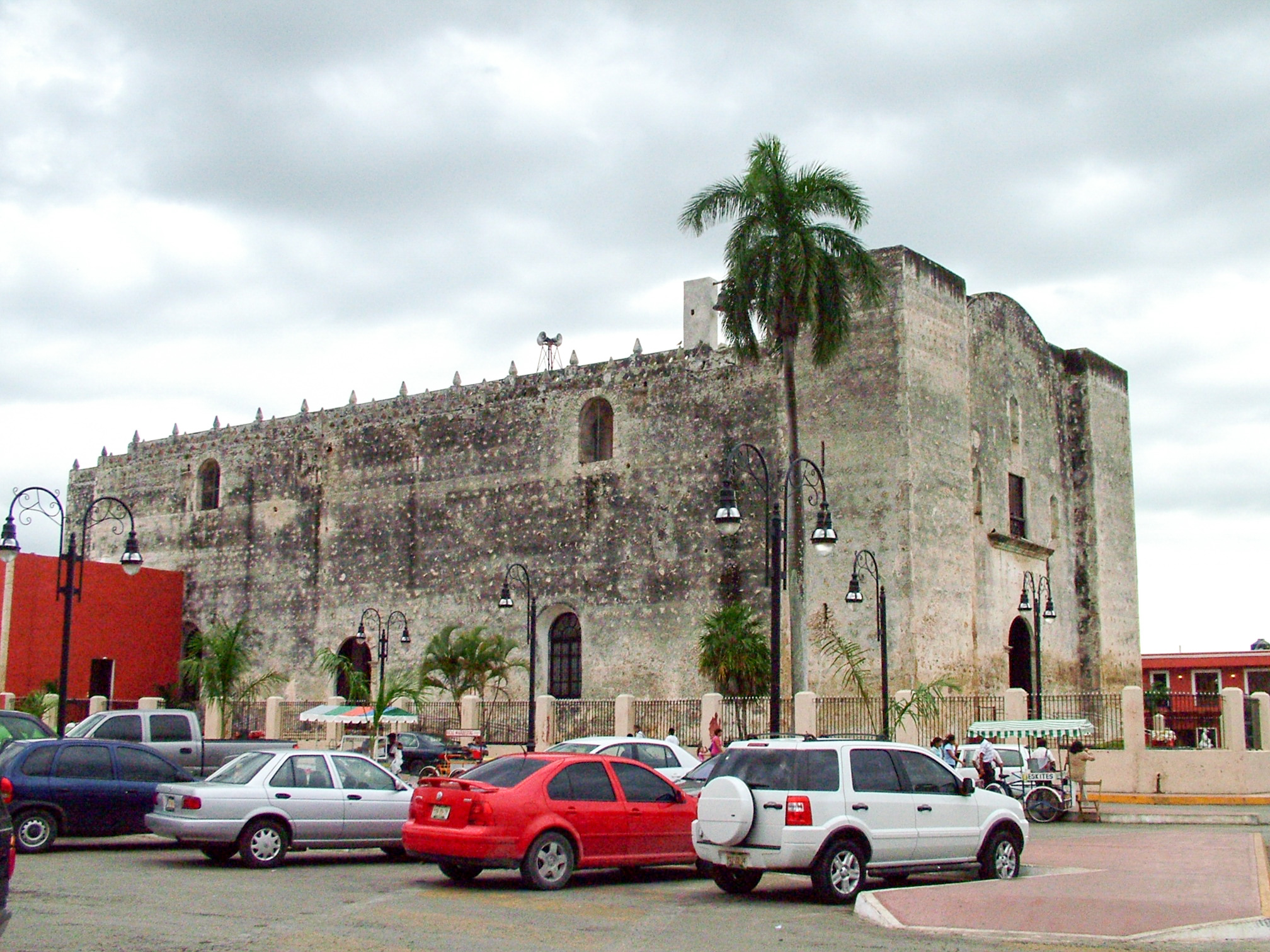 Church of the Three King in Tizimin, Yucatan.